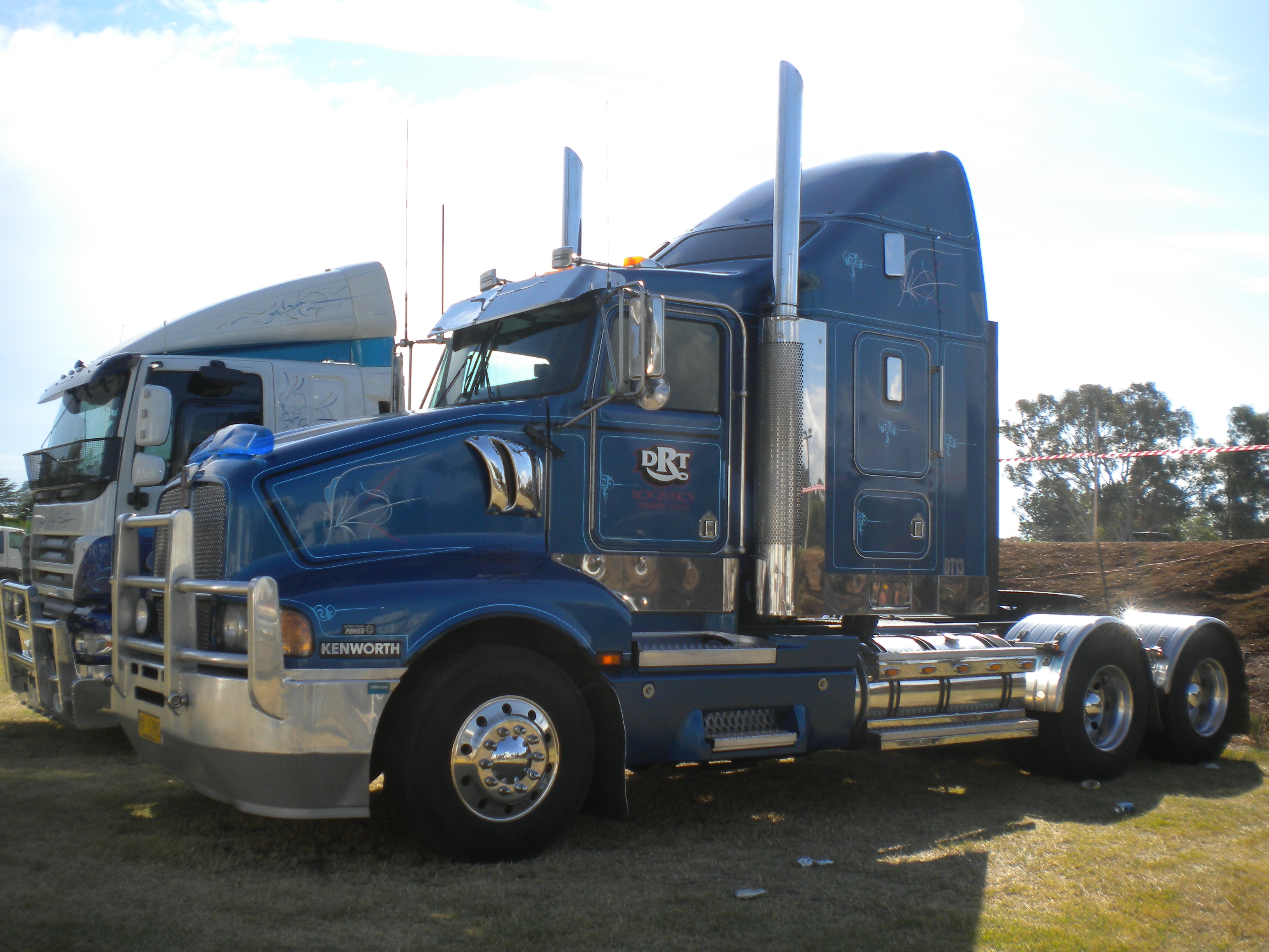 DRT transport Kenworth T604 at the Truck show looks prety good